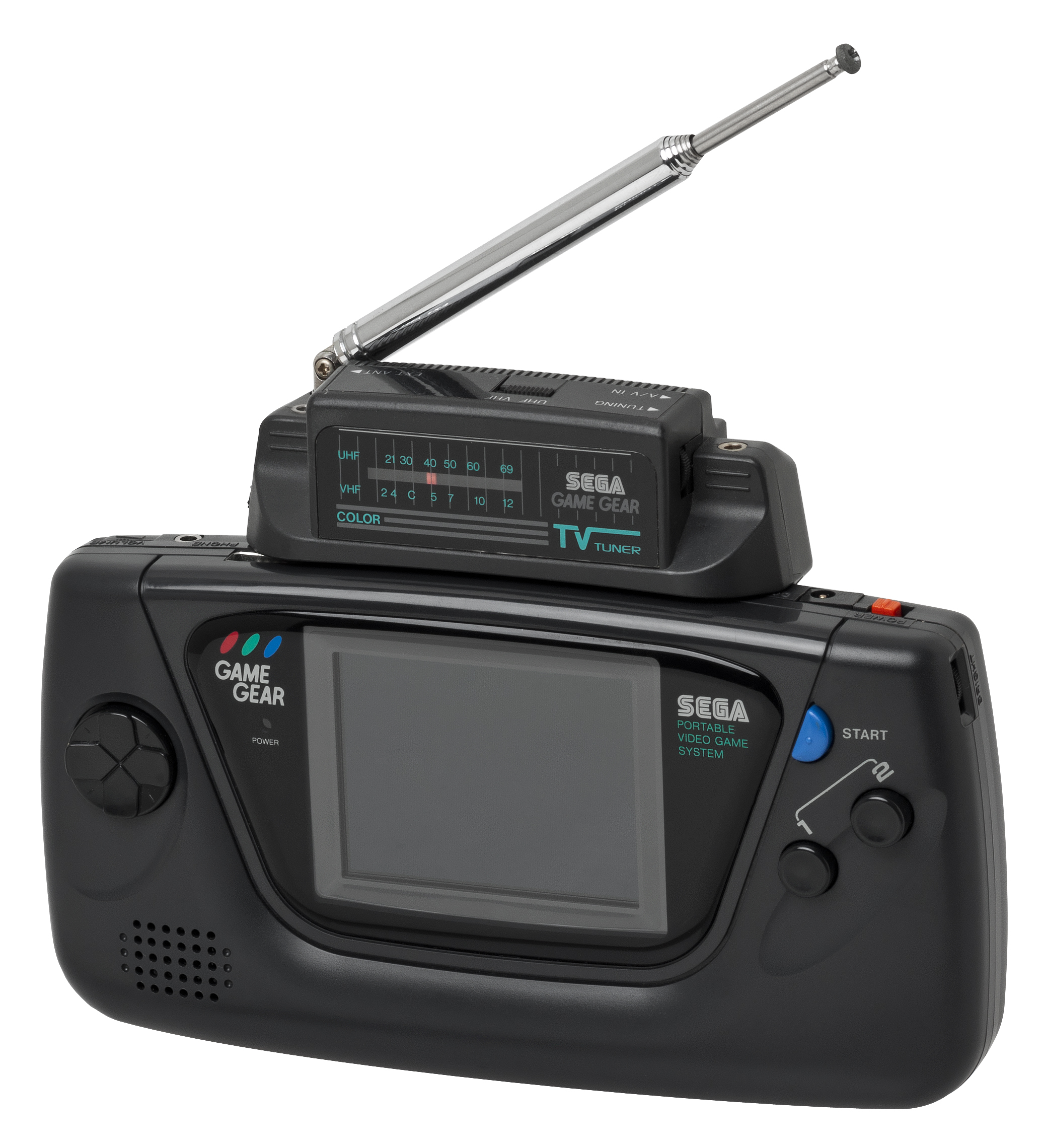 The Sega Game Gear, a handheld gaming console first released in 1990. The handheld is shown with the TV Tuner accessory, which allowed for over-the-air television on the UHF and VHF spectrum. The device is no longer supported due to the move from analog to digital signal spectrums.